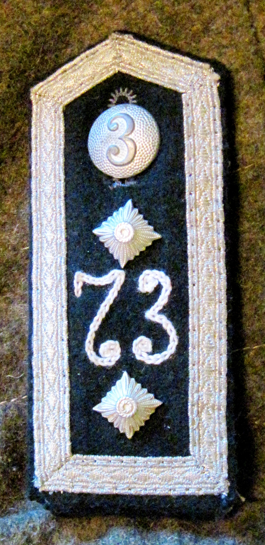 The old style shoulder strap for the sergeant from 3rd company I battalion 73 Infantry Regiment